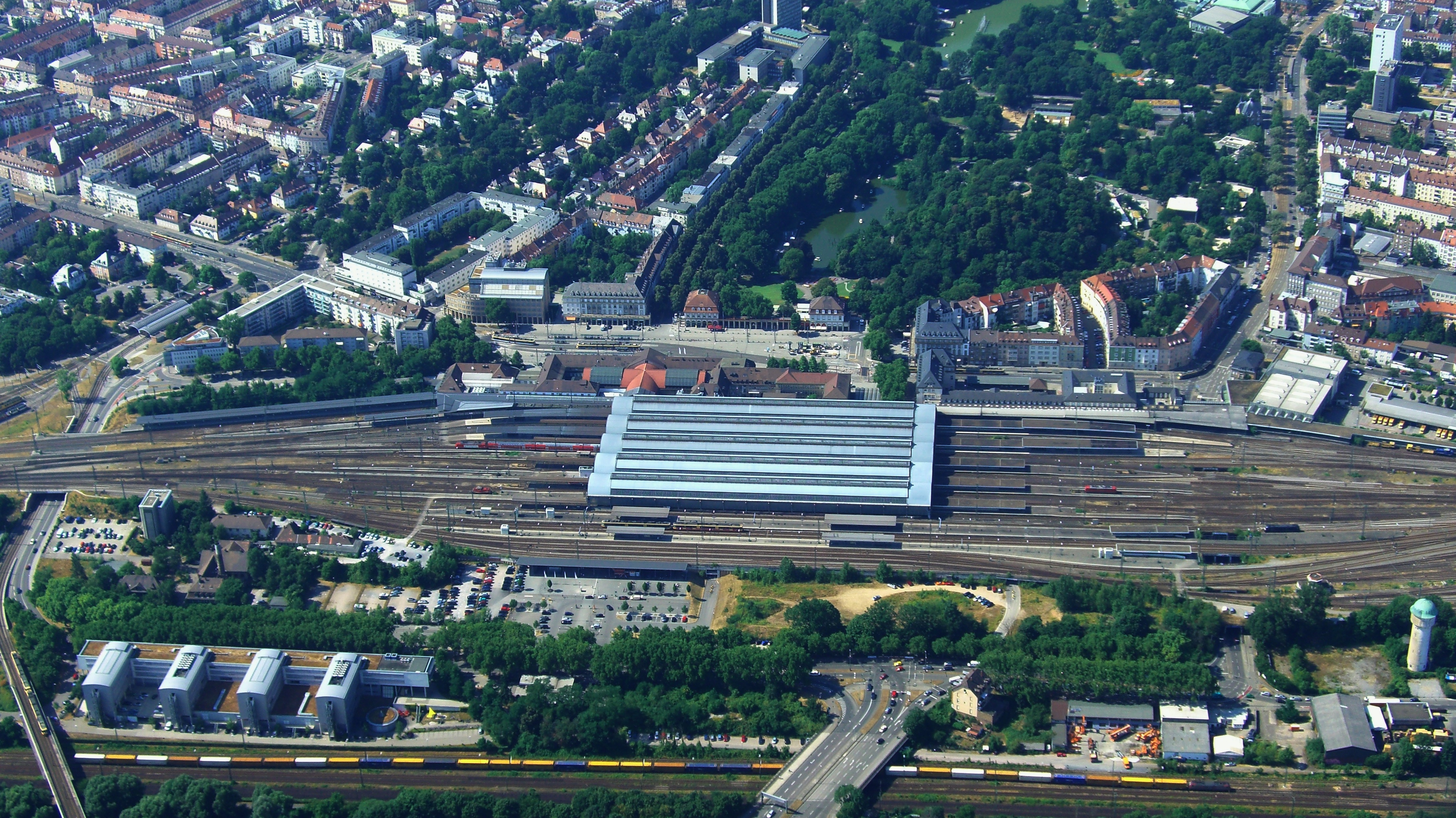 Karlsruhe Central Station